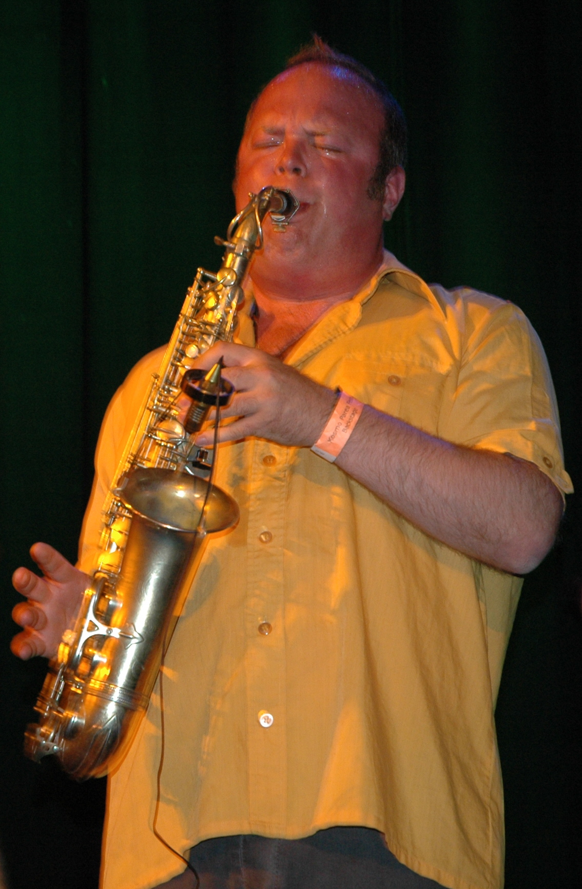 Amsterdam Klezmer Band saxophonist Job Chajes at the Gloria Theater in Köln, Germany